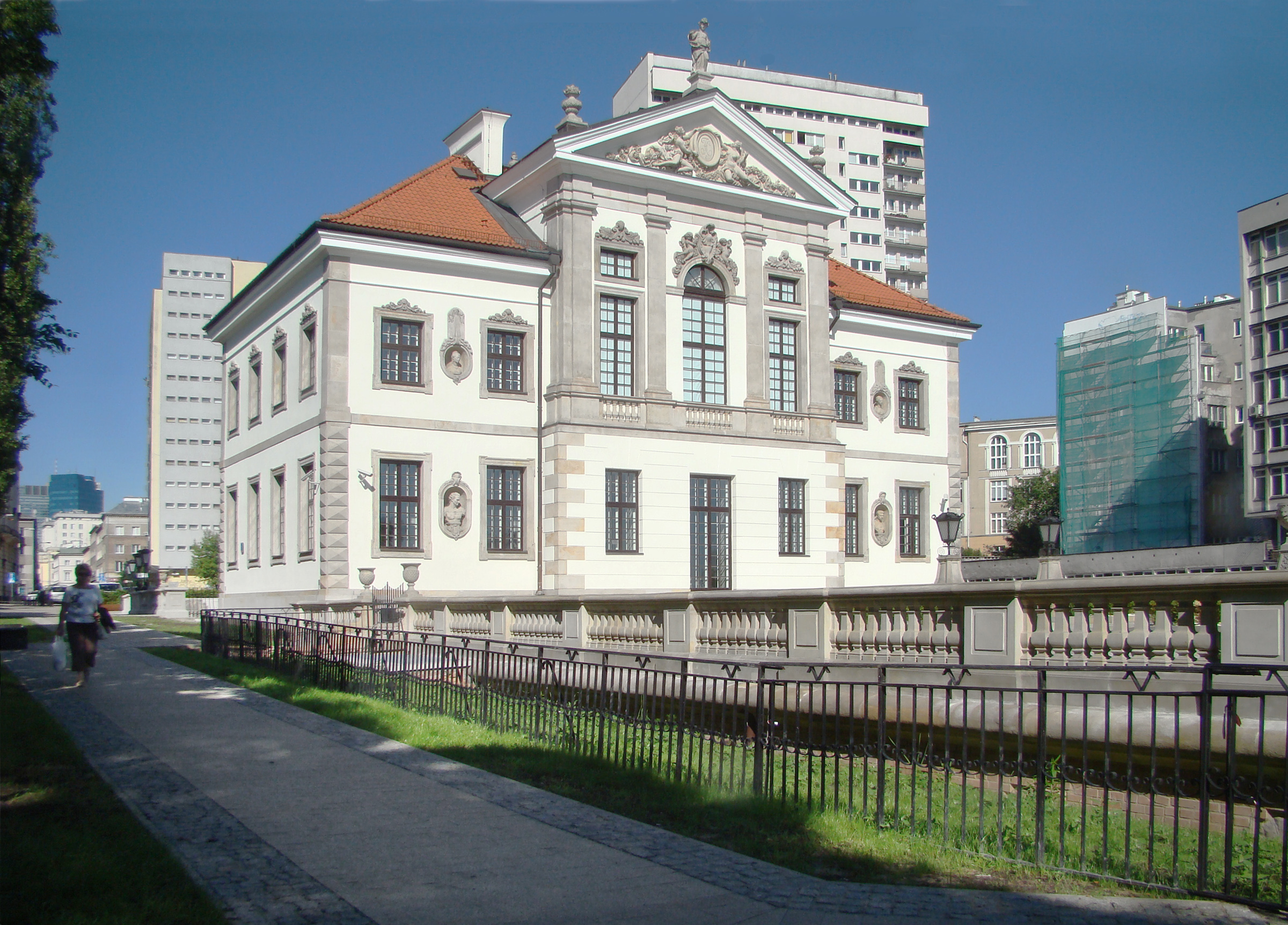 Ostrogski Palace - eastern facade